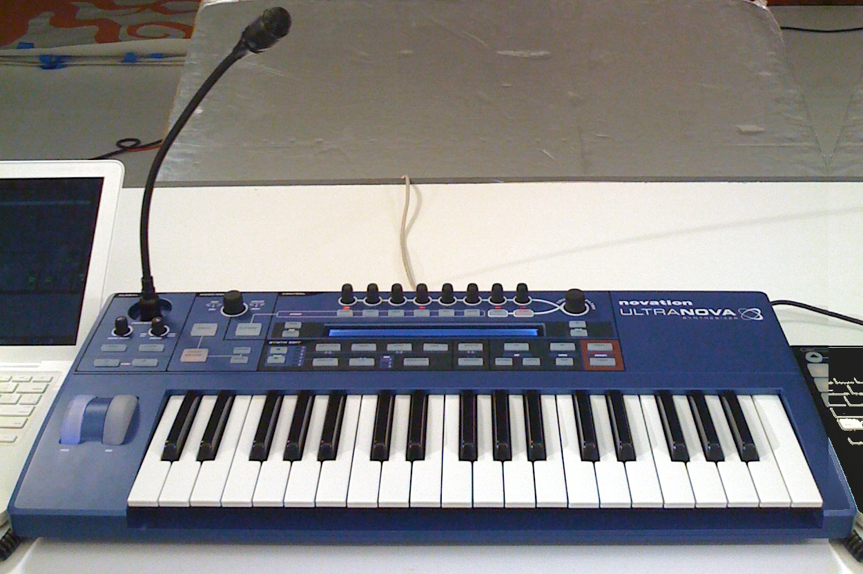 Novation UltraNova with vocoder microphone